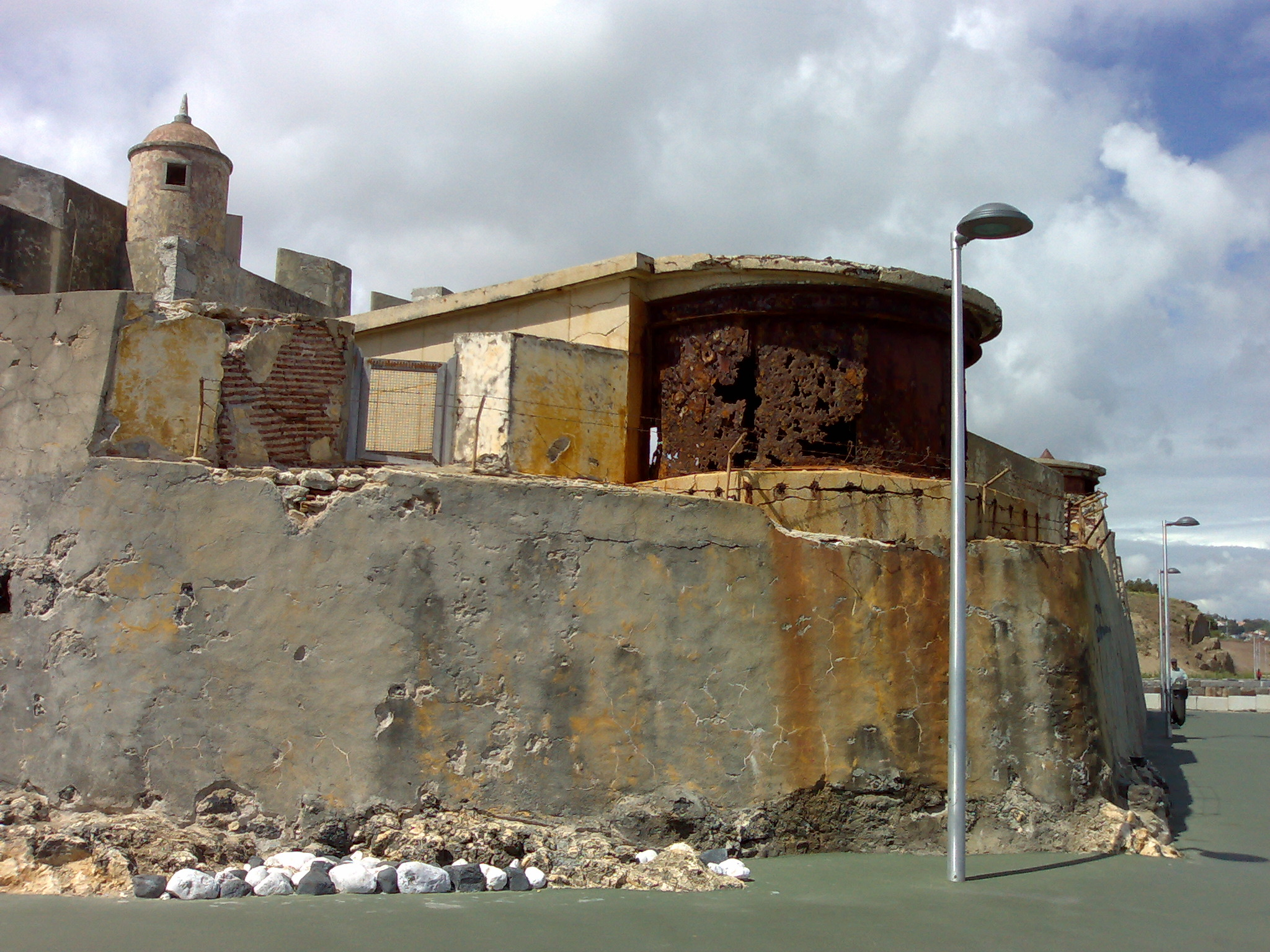 Forte de São João das Maias, a fortress in Oeiras, Portugal.